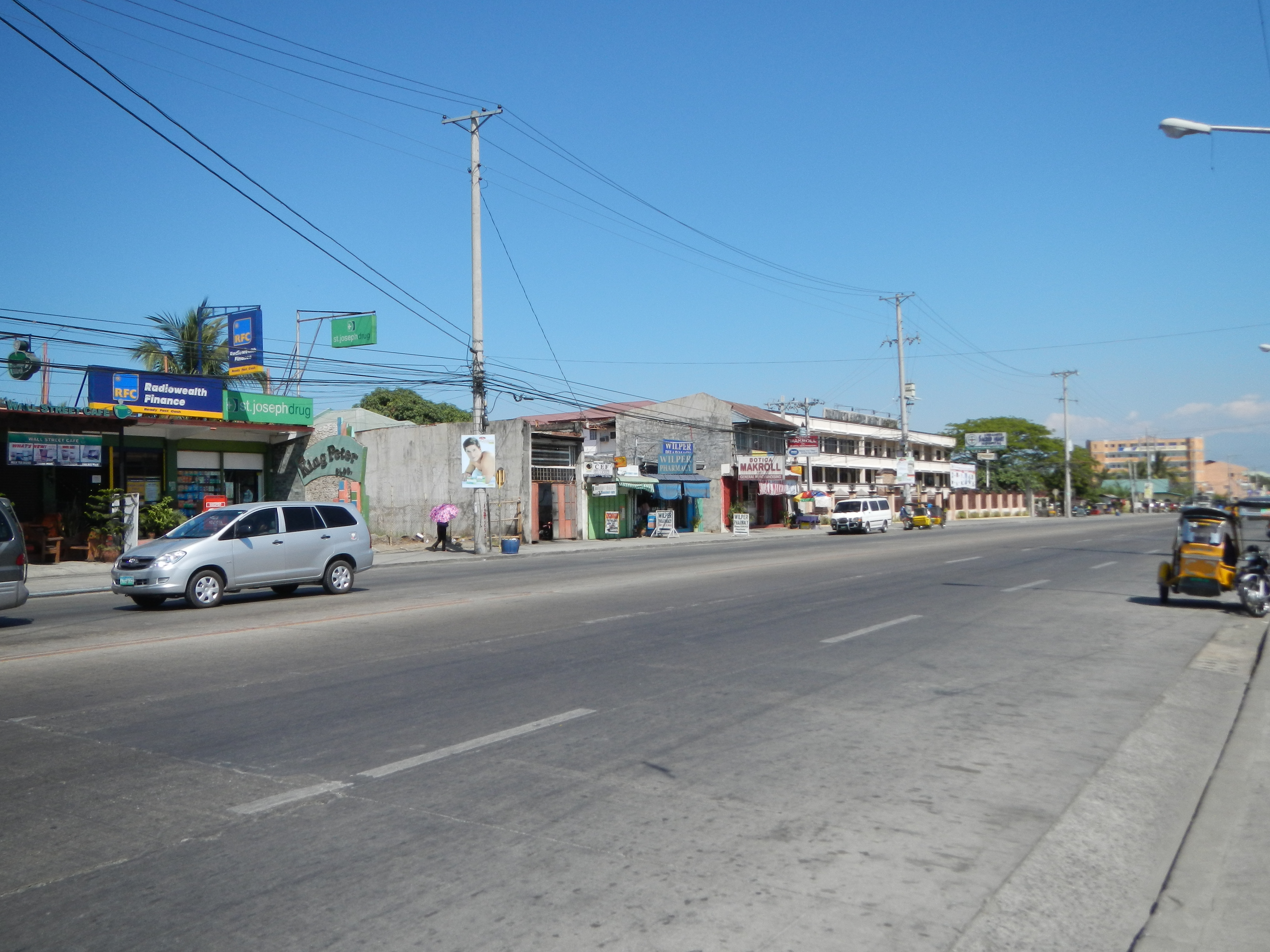 Photos of MacArthur Highway in Urdaneta, Pangasinan (junction, crossing, intersection: the Urdaneta Sacred Heart Hospital - Urdaneta City - Philippines 2428 [1], Manhattan Technical School, and International Business Colleges at Calle Sison st., Barangay Bayaoas).